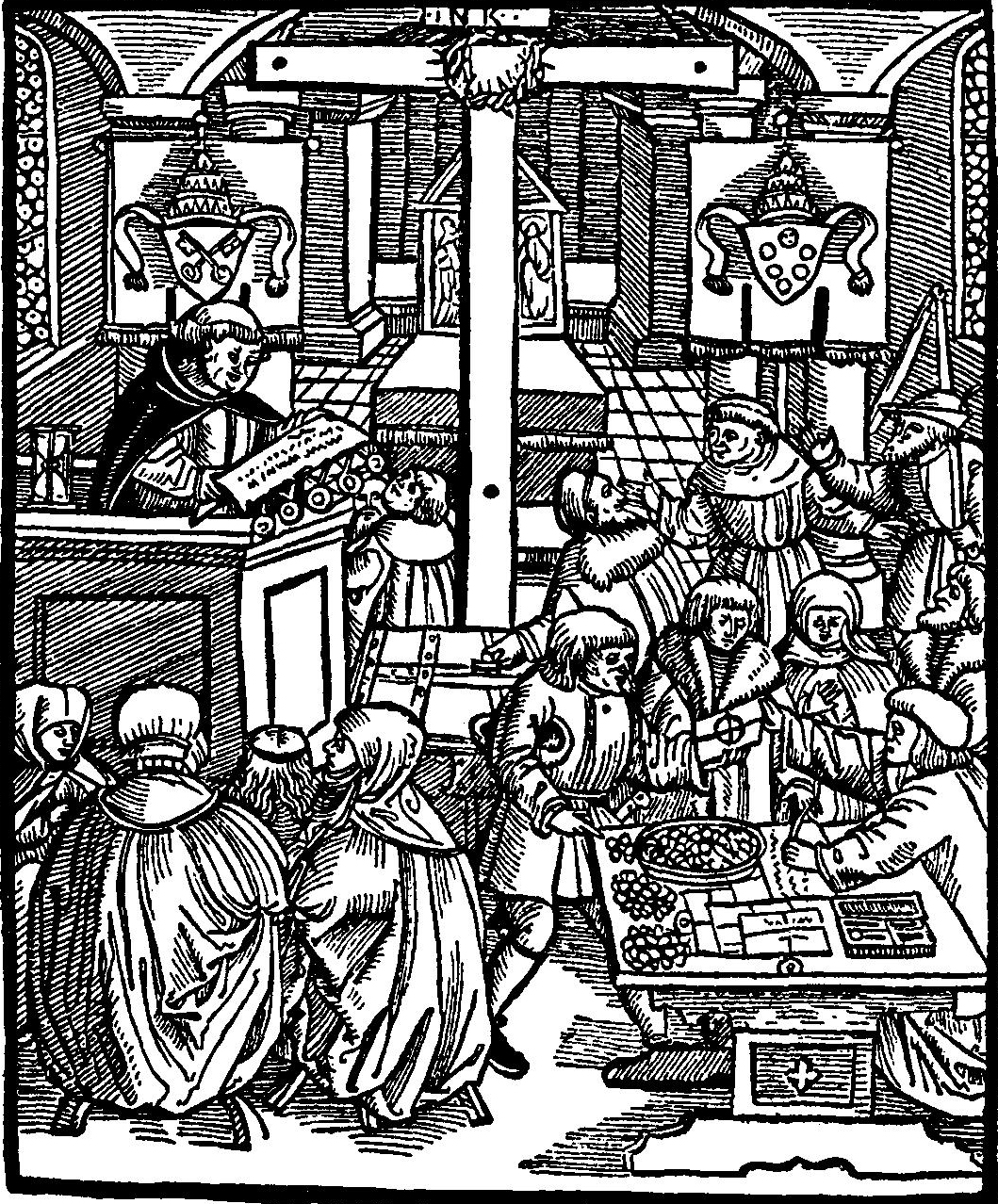 Sellers of indulgences. The man behind the desk shows his authorization with papal seals.